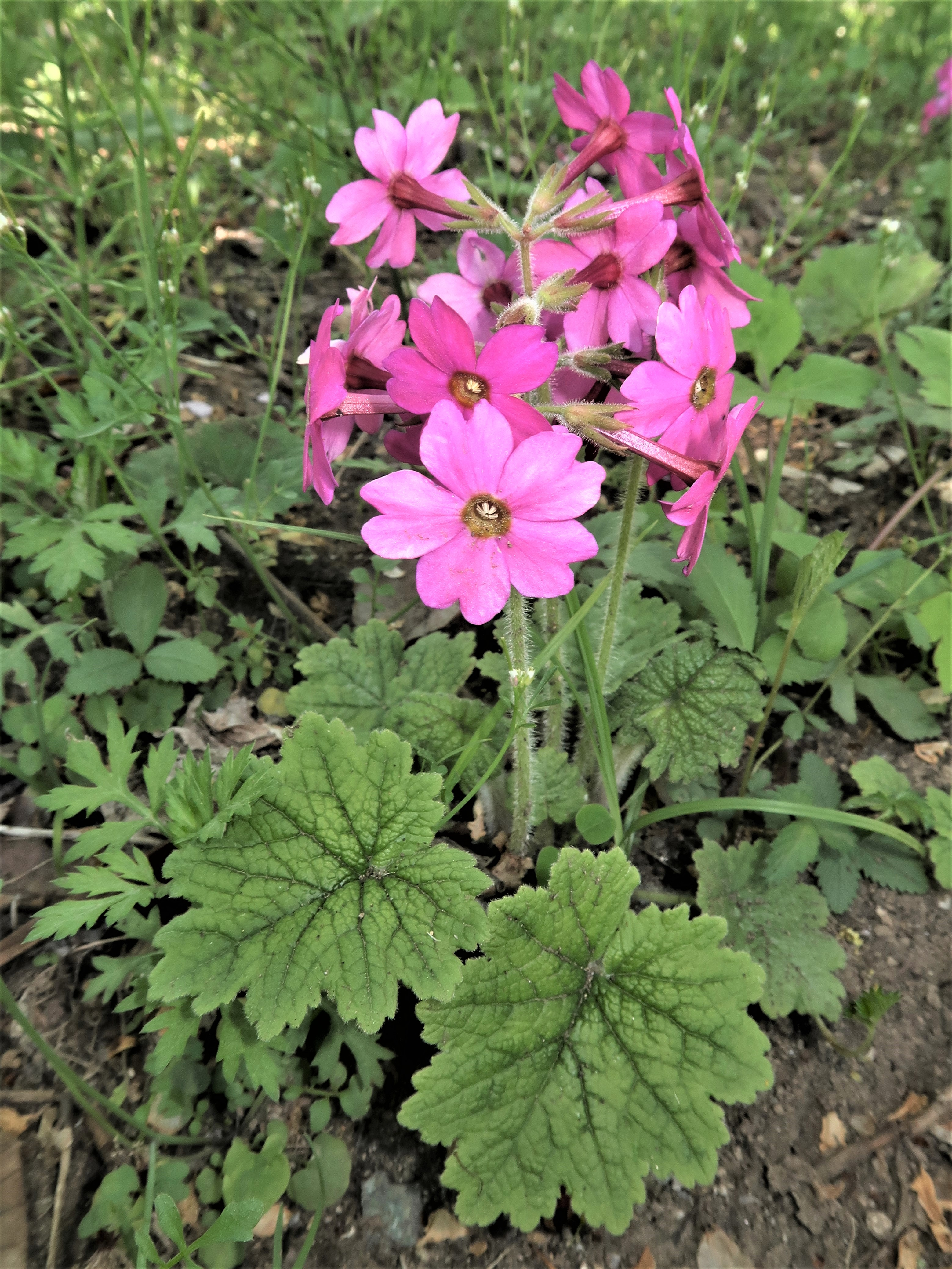 Primula kisoana, Yamagata City Wild Plants Garden, Japan